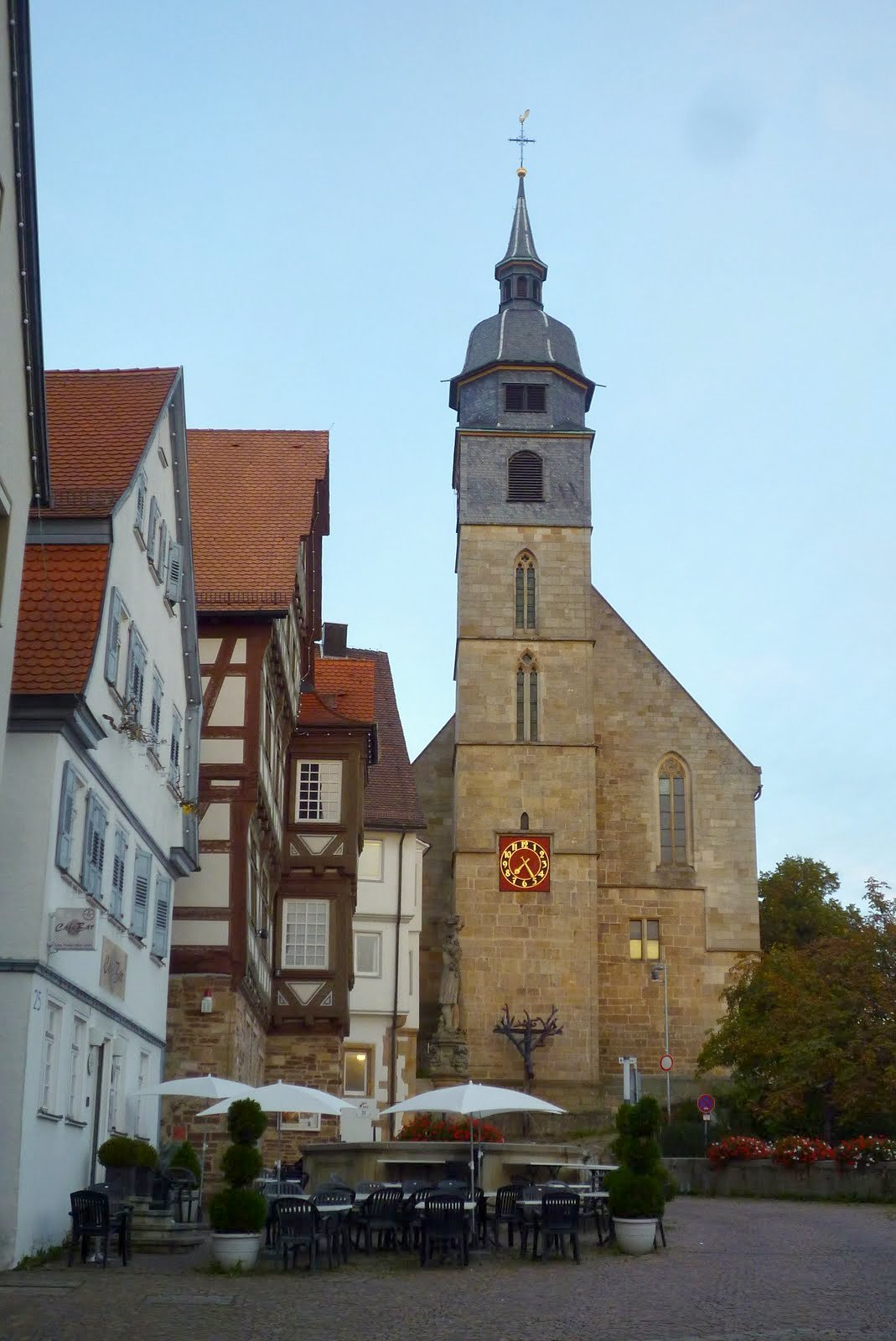 Church in Böblingen, Germany